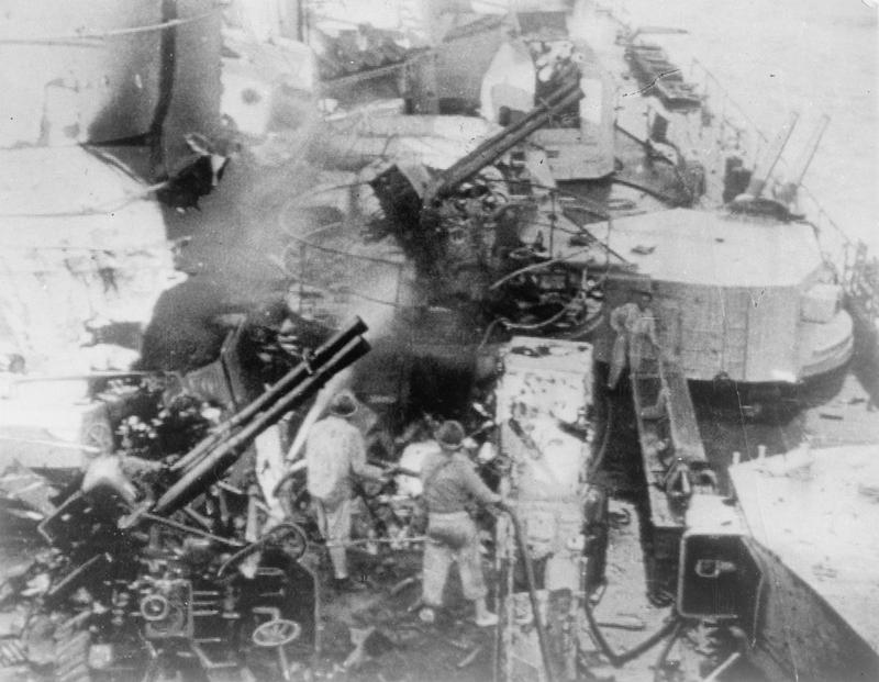 Naval Operations in the Mediterranean, 1940 Damage to the Italian battleship GIULIO CESARE sustained during an engagement with the Royal Navy off Calabria.